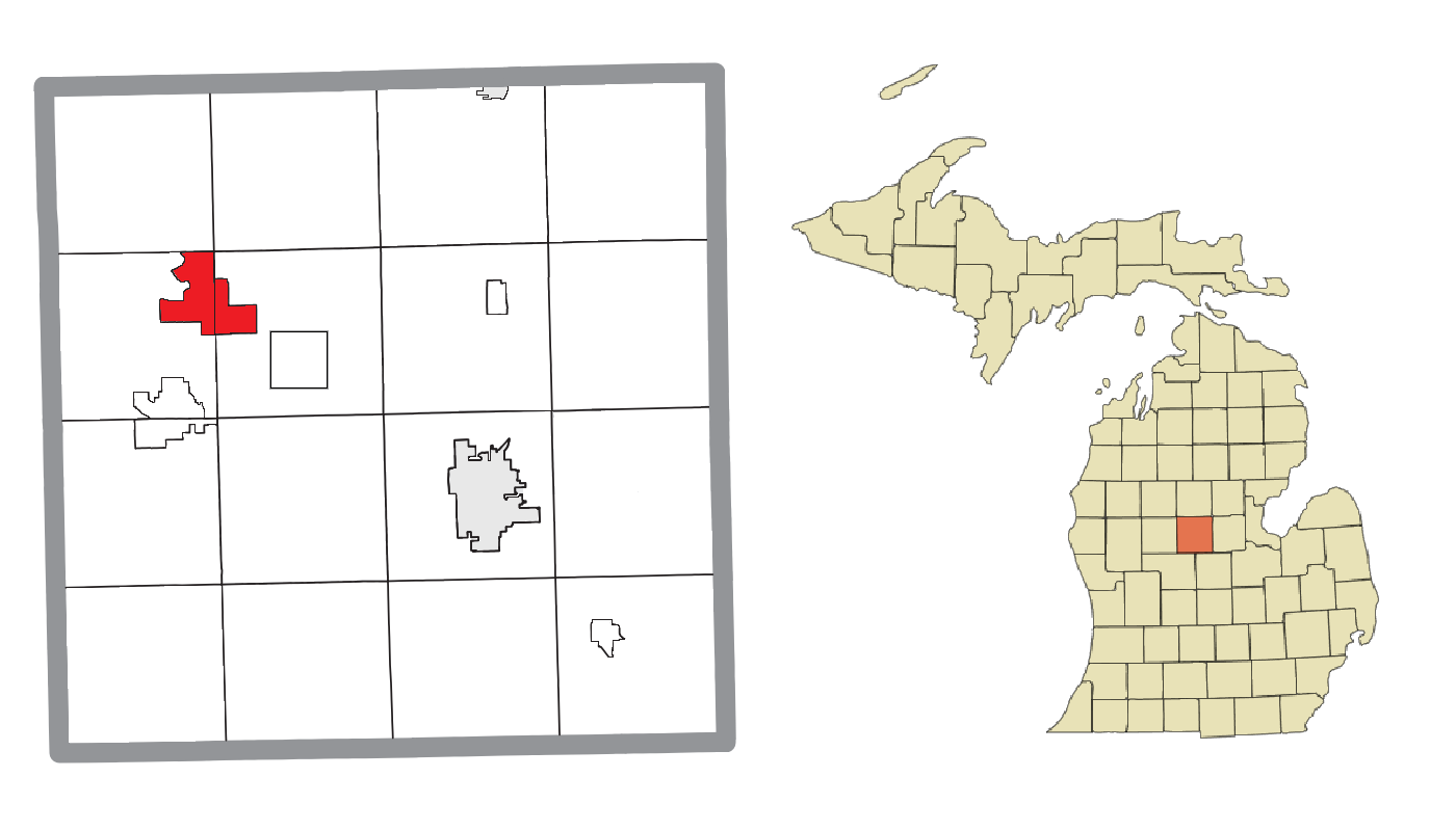 Weidman, MI